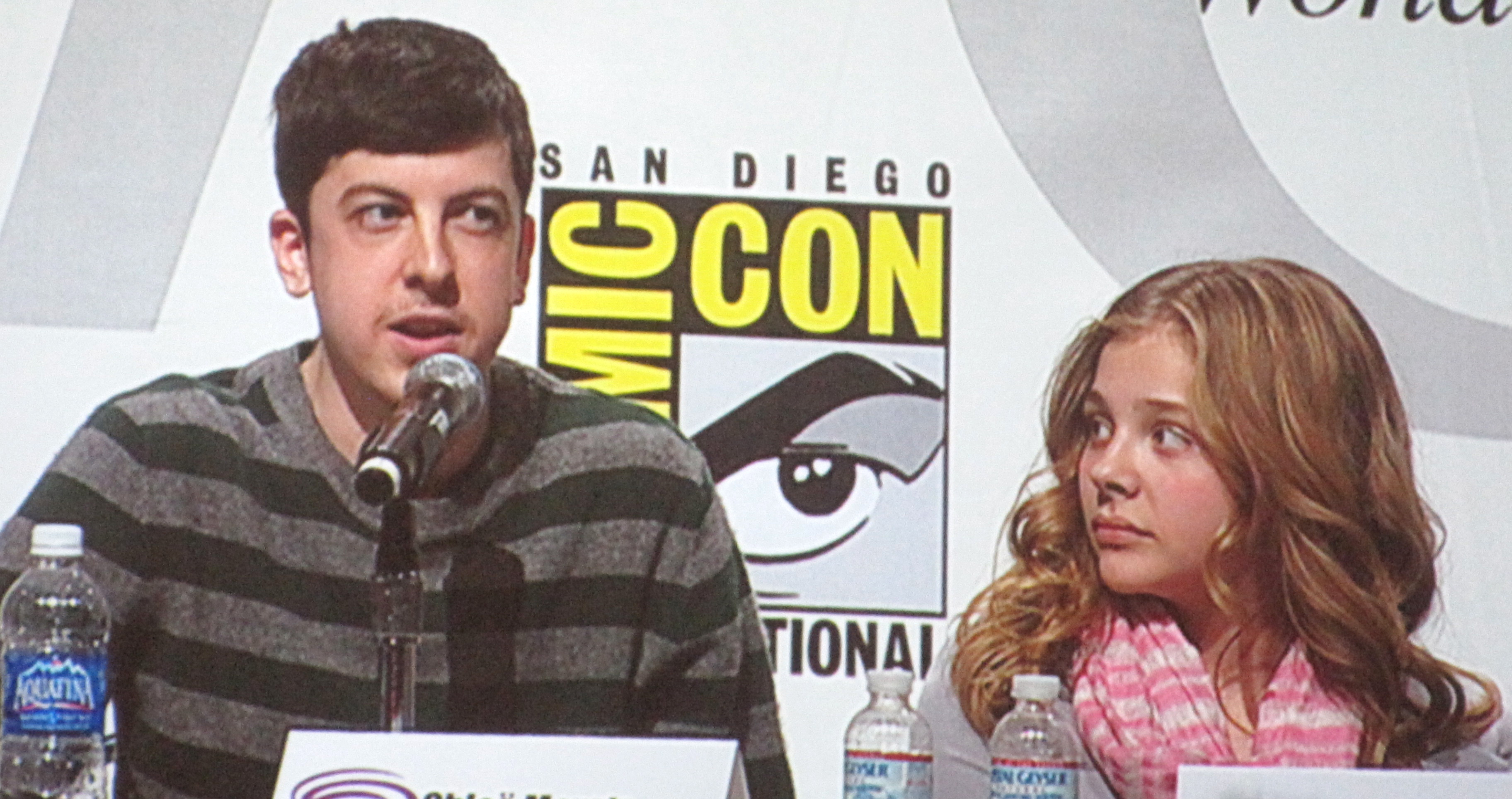 Christopher Mintz-Plasse and Chloë Grace Moretz participating in the Kick-Ass film panel at WonderCon 2010.